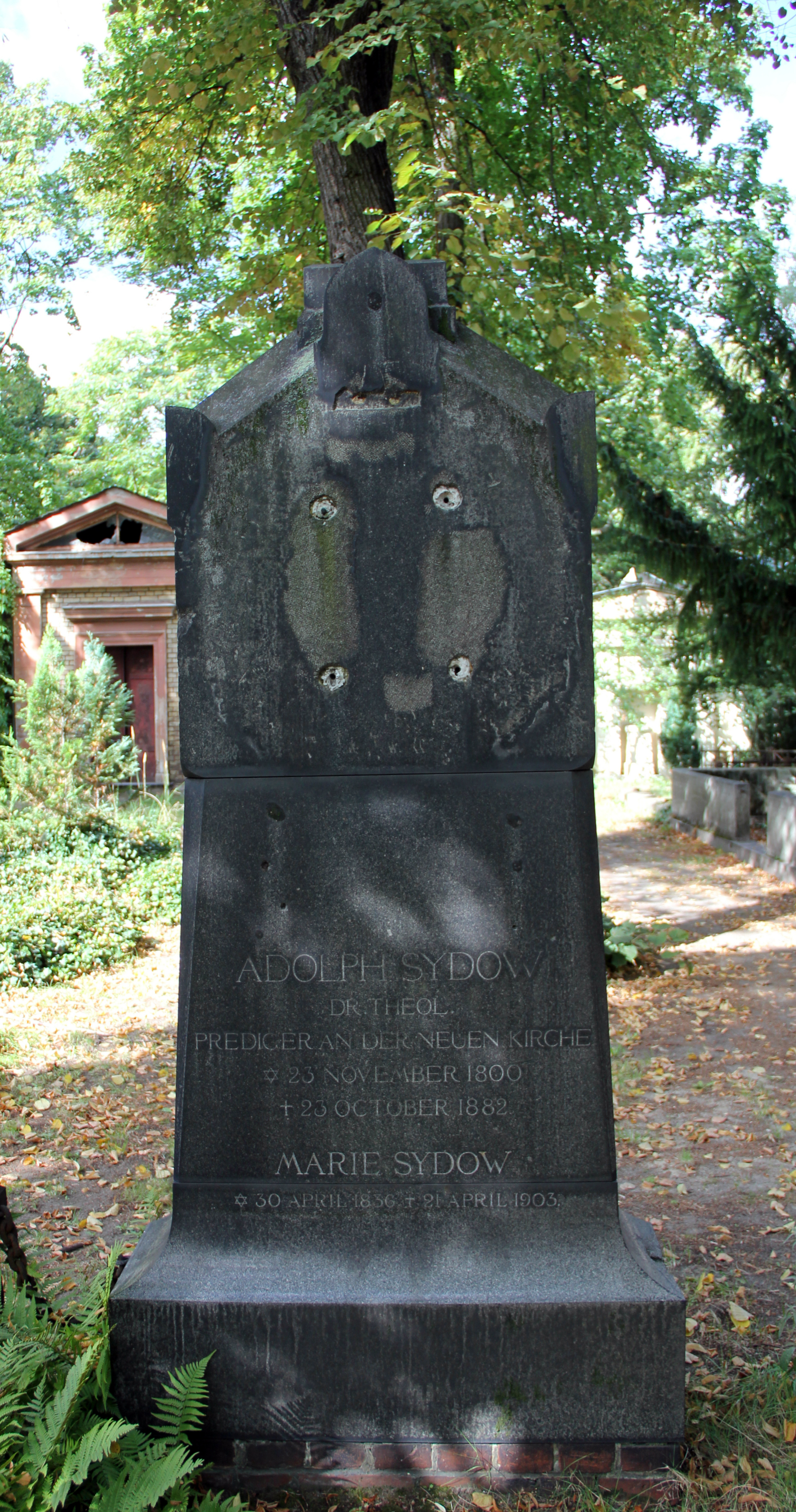 Grave of honor, Karl Leopold Adolph Sydow, Mehringdamm 21, Berlin-Kreuzberg, Germany